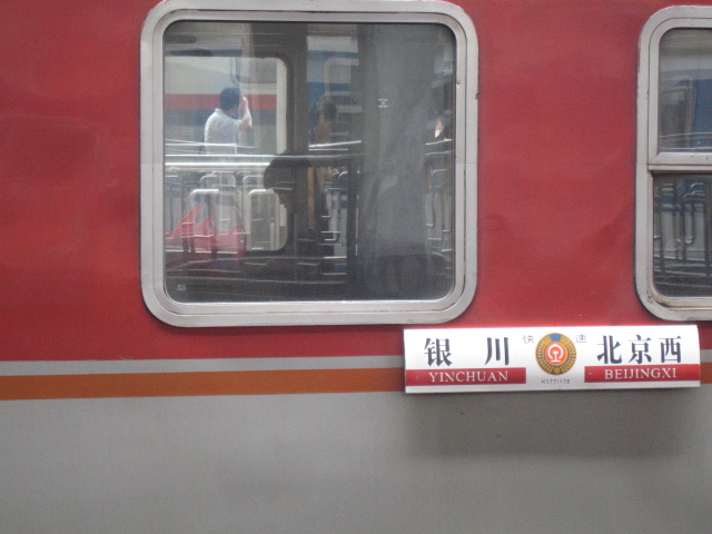 K177/178, from Beijingxi to Yinchuan.